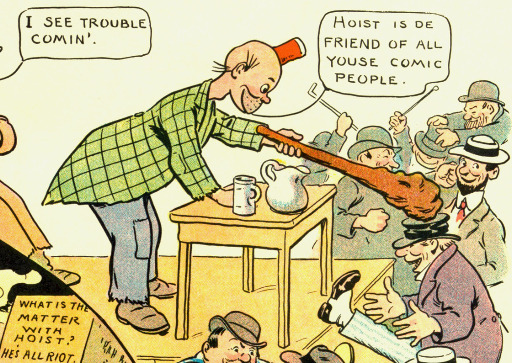 Political cartoon, Hoist, the friend of the Comic People. by Louis M. Glackens for Puck magazine, October 31, 1906. The characters seen, clockwise are: Foxy Grandpa by Carl E. Schultze, Alphonse and Gaston by Frederick Burr Opper, Happy Hooligan by Frederick Burr Opper, And Her Name Was Maud by Frederick Burr Opper, The Katzenjammer Kids by Rudolph Dirks, Buster Brown by Richard Felton Outcault, and at the center, all of the characters having a "rally" with "Hoist" sitting on the back of Maud, the mule. "Hoist" was William Randolph Hearst, who was the publisher of many newspapers--all of the comic characters in the illustration appeared in Hearst-owned newspapers. W. R, Hearst ran for governor of New York State in 1906; his opponent (and the winner of the election) was Charles Evans Hughes.